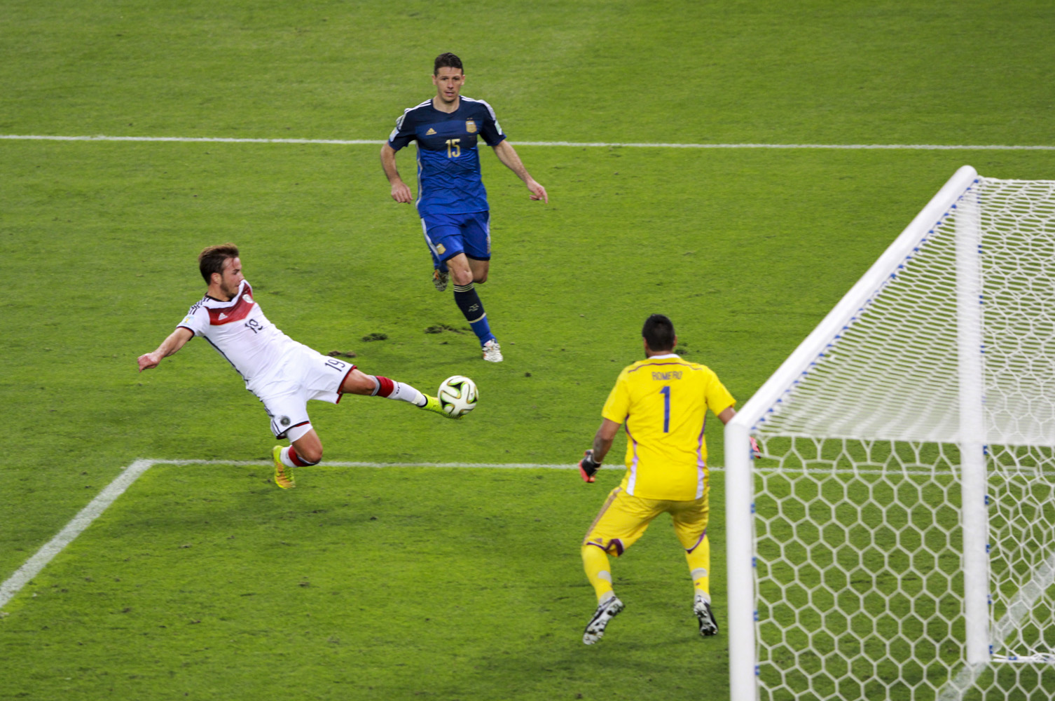 The final match of World Cup 2014 between Germany and Argentina 2014-07-13